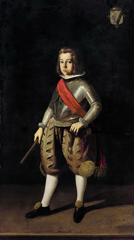 Don Alonso Verdugo de Albornoz